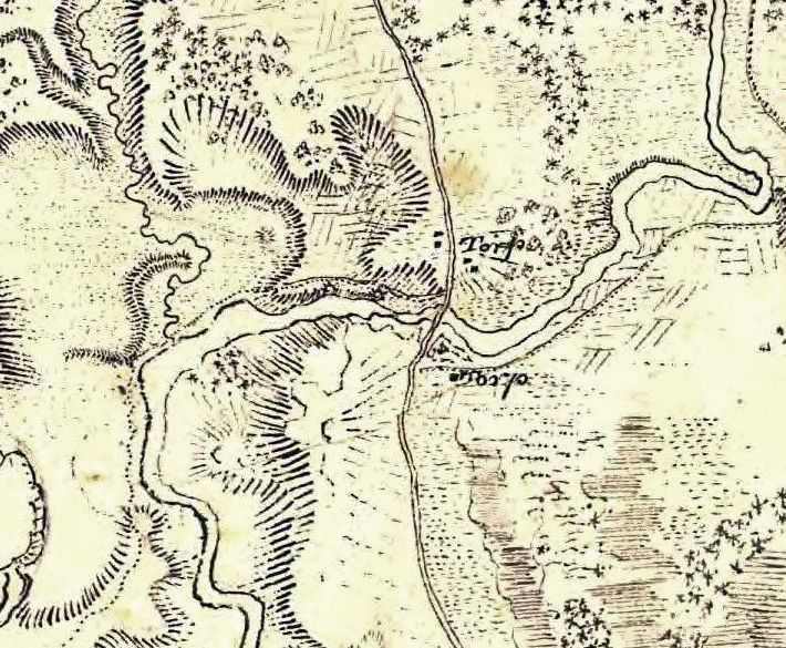 Detail from map over the surrounding area between Eda sconce and Norwegian border, showing the defences at Morast bridge, Värmland, Sweden in 1814.